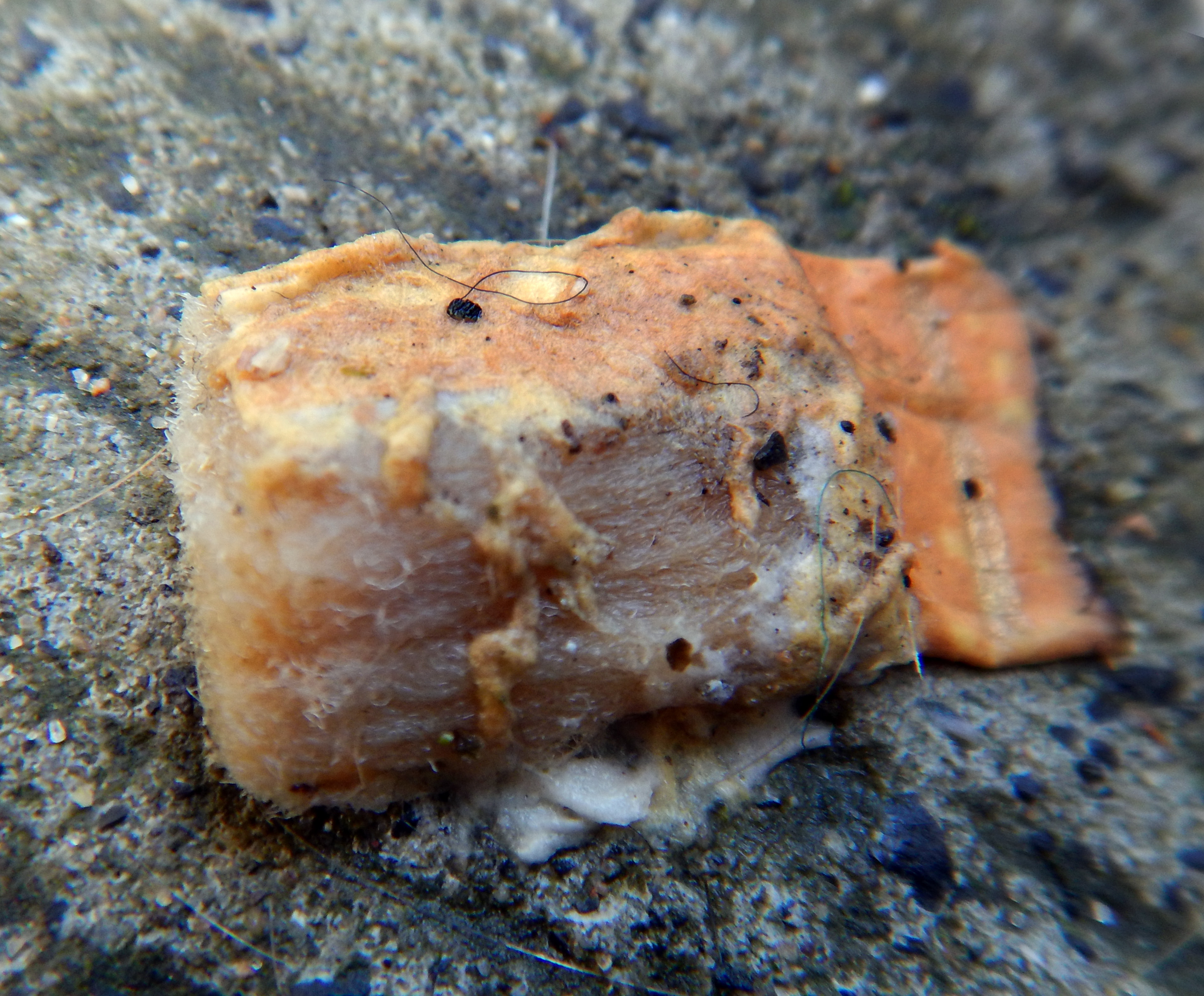 Cigarette butt on wet sidewalk, after heavy rain